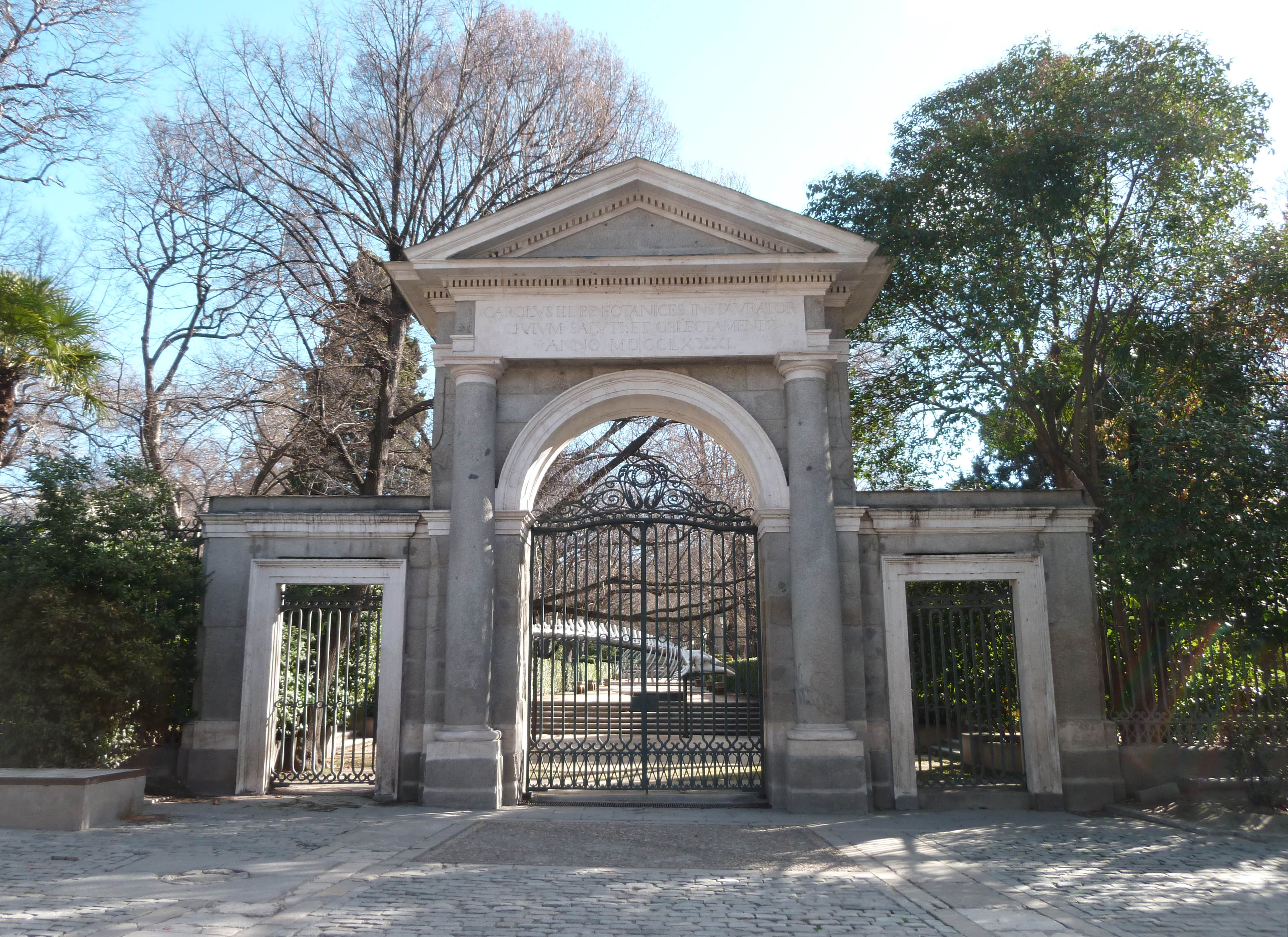 View of the Royal Gate of the Royal Botanical Garden of Madrid (Spain).